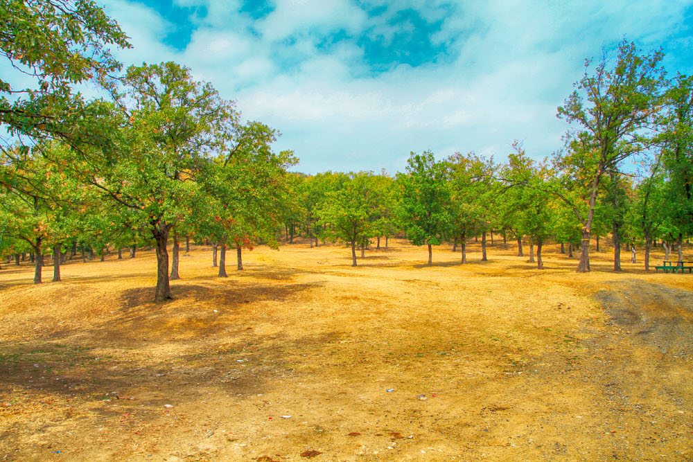 Nature in the Pomorie region